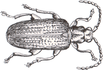 Version of :Image:Col-chrysomeloidea-donacia-.gif, with transparent background.